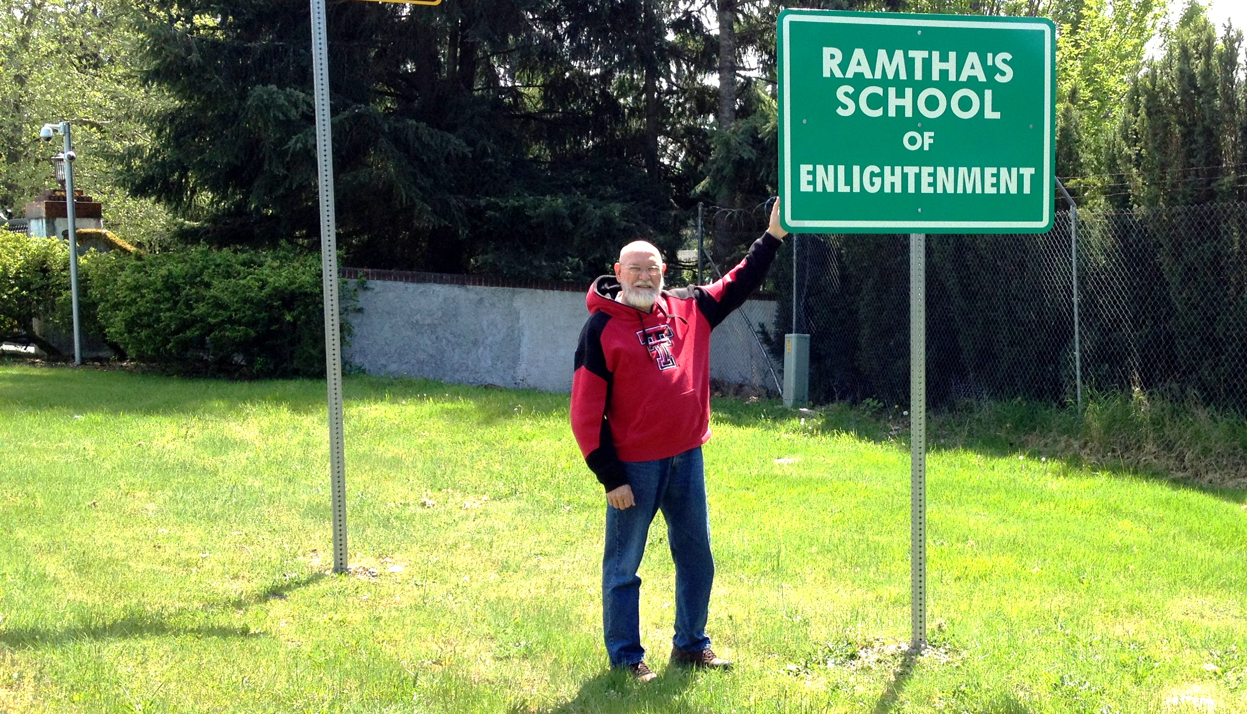 Sign outside Ramtha's School of Enlightenment, Yelm, Washington. The entrance is in the background on the left.